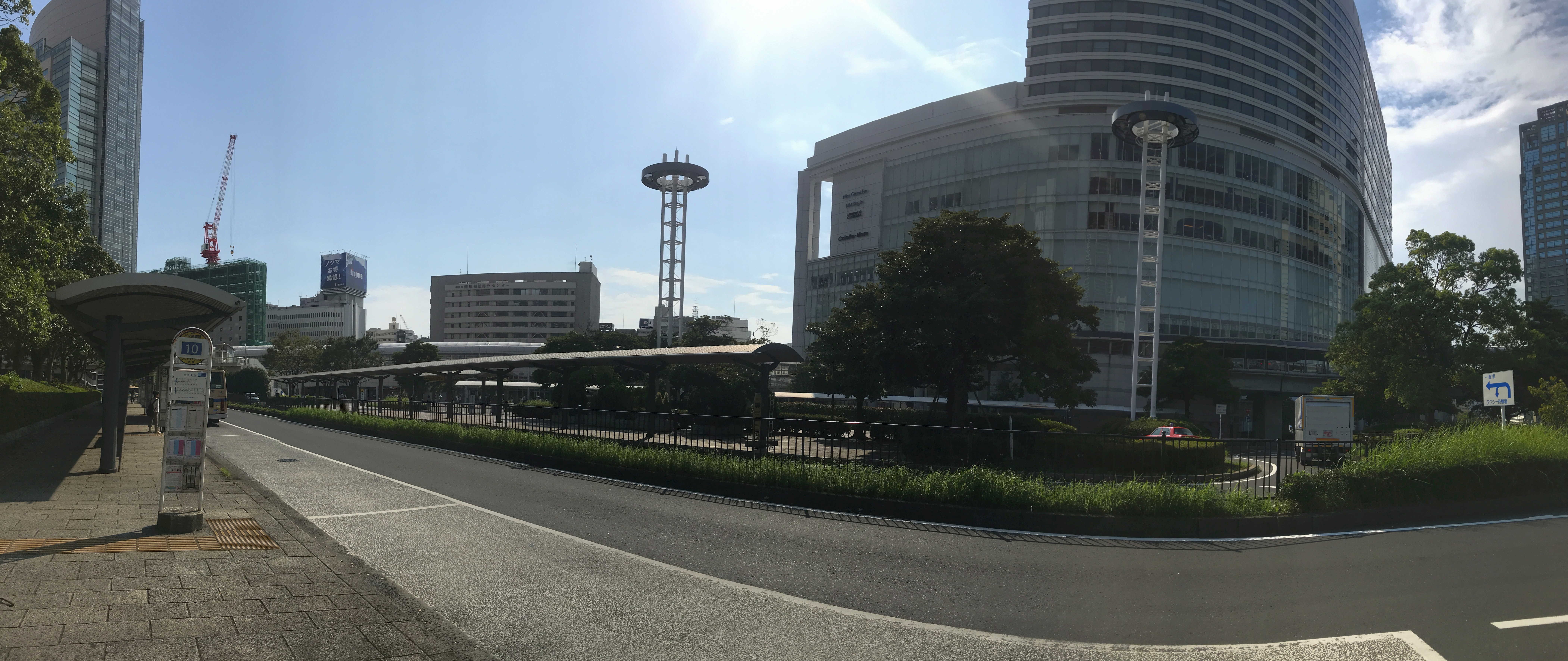 A bus rotary at the east exit of Sakuragicho Station. At the back of the left is Sakuragicho station.